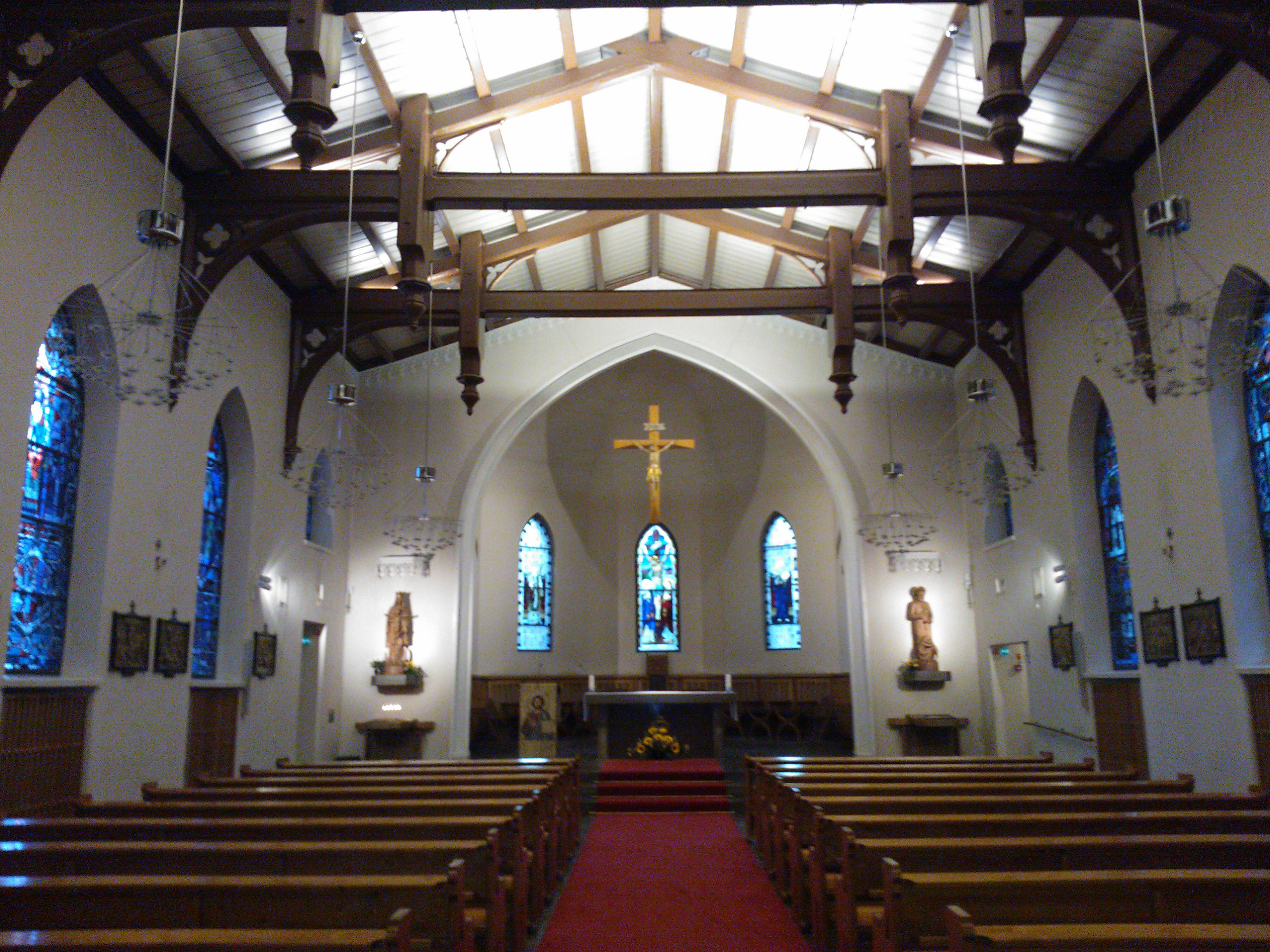 Saint Henry's Cathedral, Helsinki, Finland. Interior.